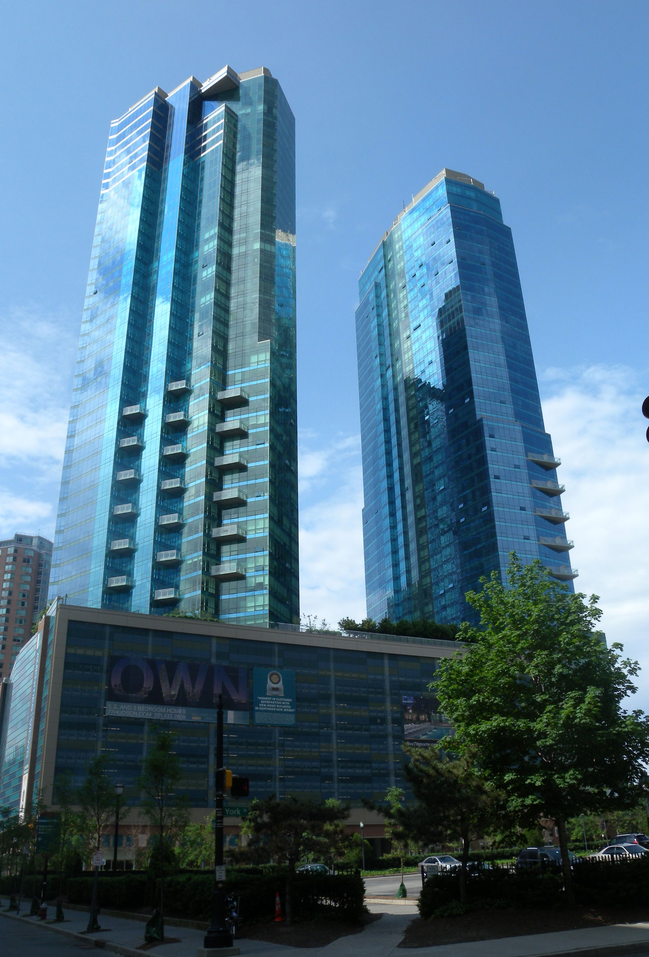 Looking southwest from York and Hudson Streets at 77 Hudson St (Hudson Greene) on a mostly cloudy morning.